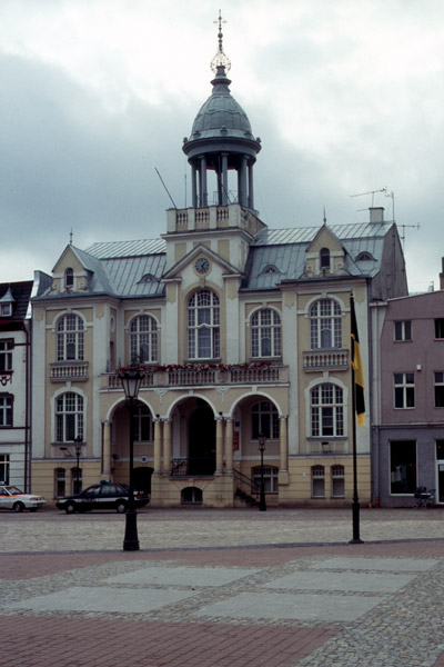 City hall.